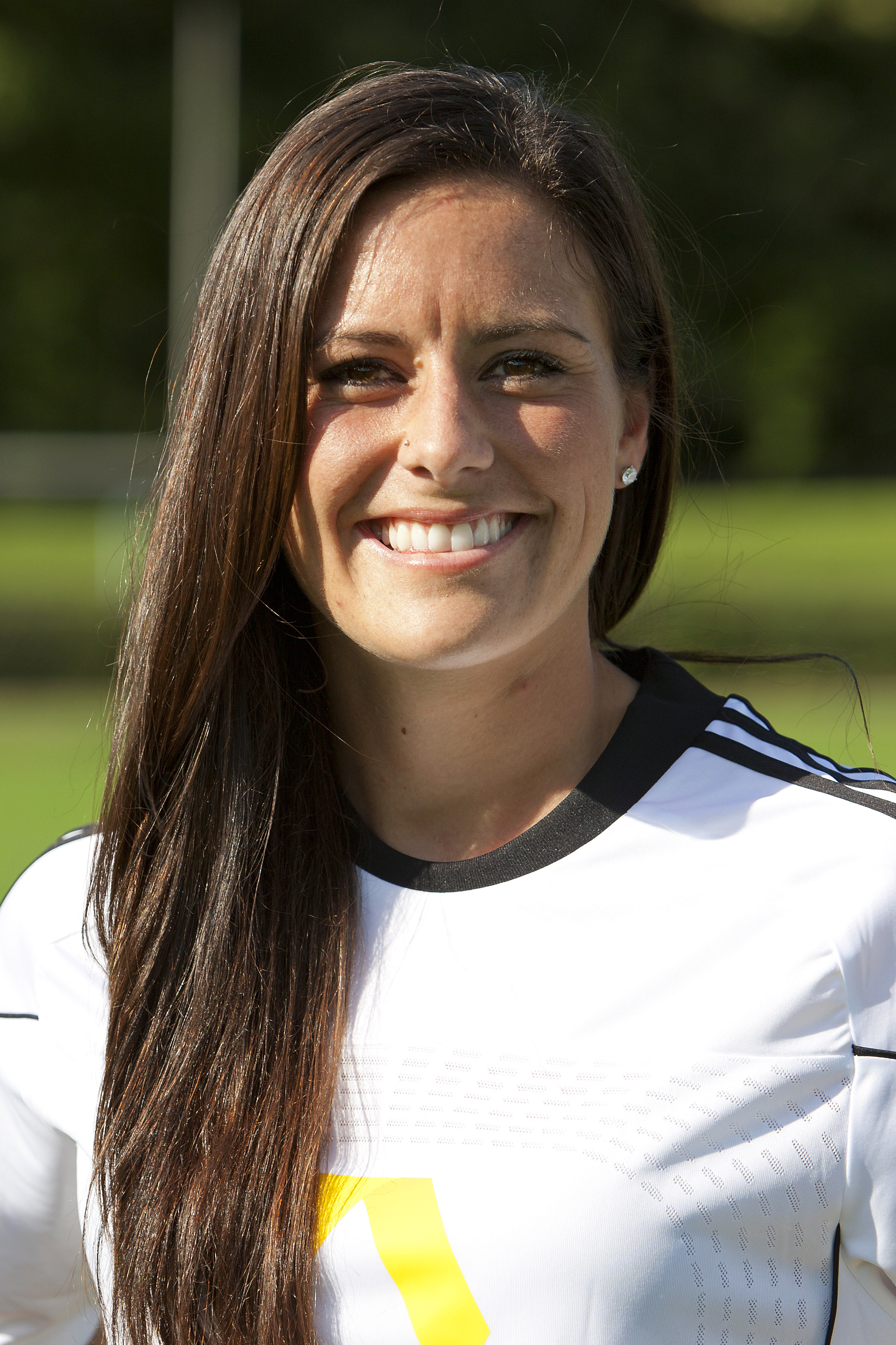 Ali Krieger, August 2011